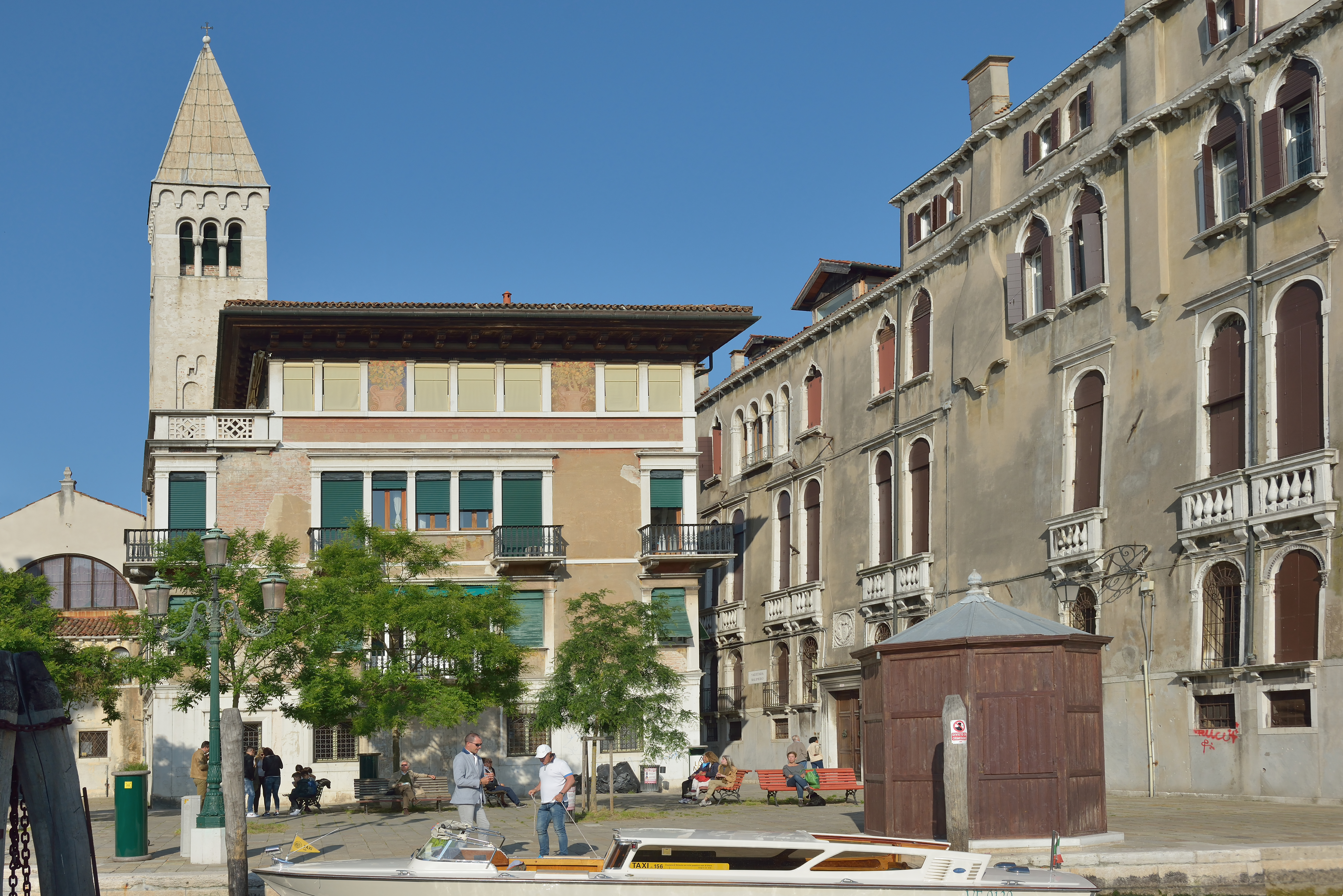 Casa Sezanne or Casa Franceschinis in Venice. Facade on Grand Canal.